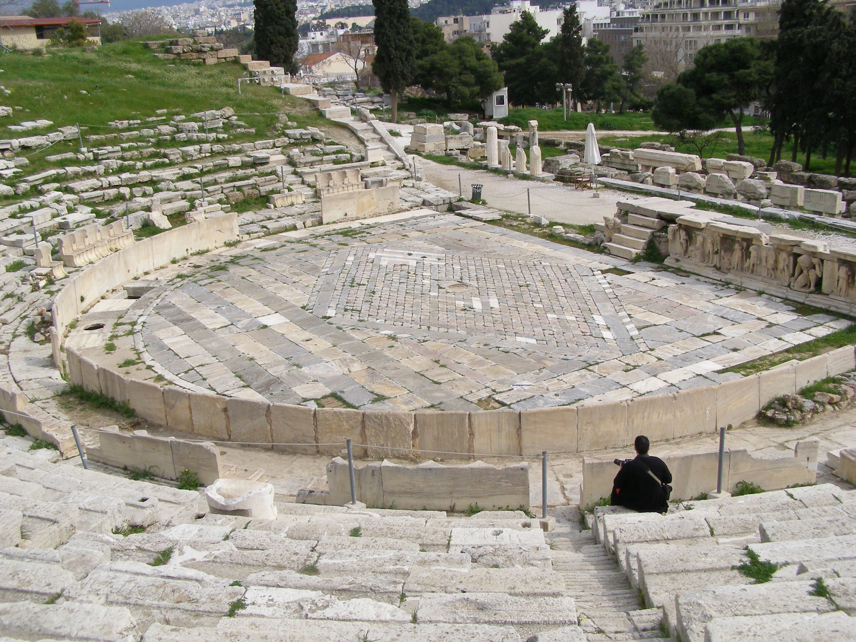 Athens - Theatre of Dionysus